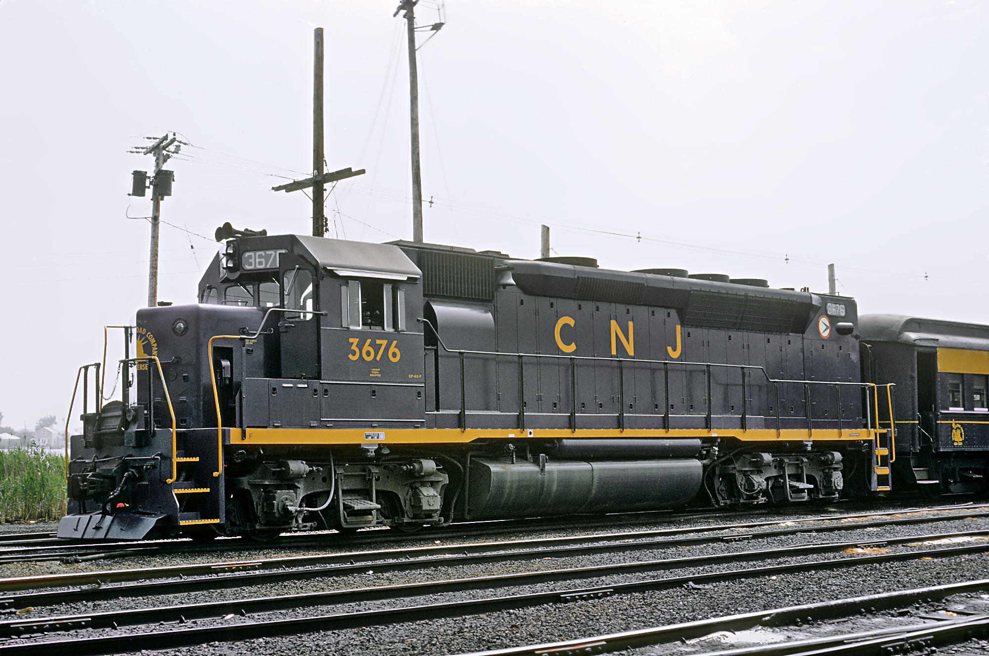 A Roger Puta Photograph